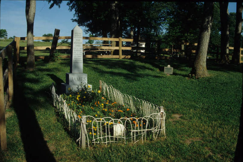 Jesse James Farm Home - Kearney, Missouri.